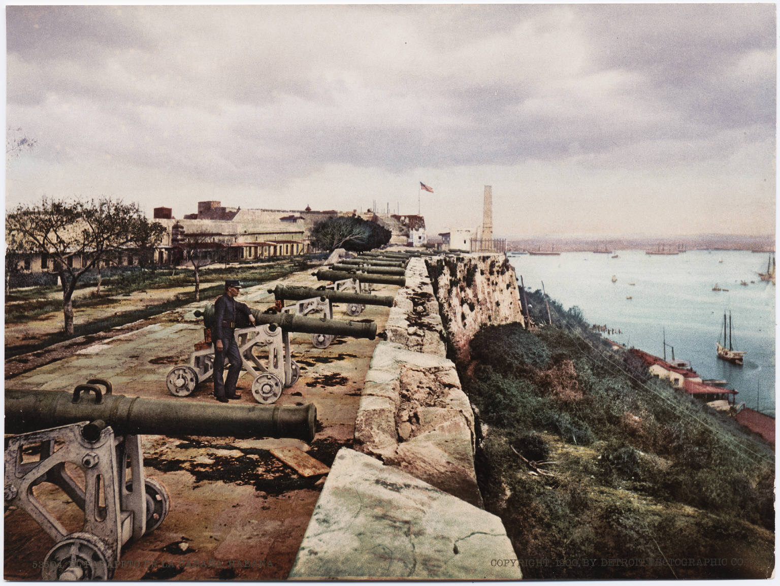 A photochrom postcard published by the Detroit Photographic Company.